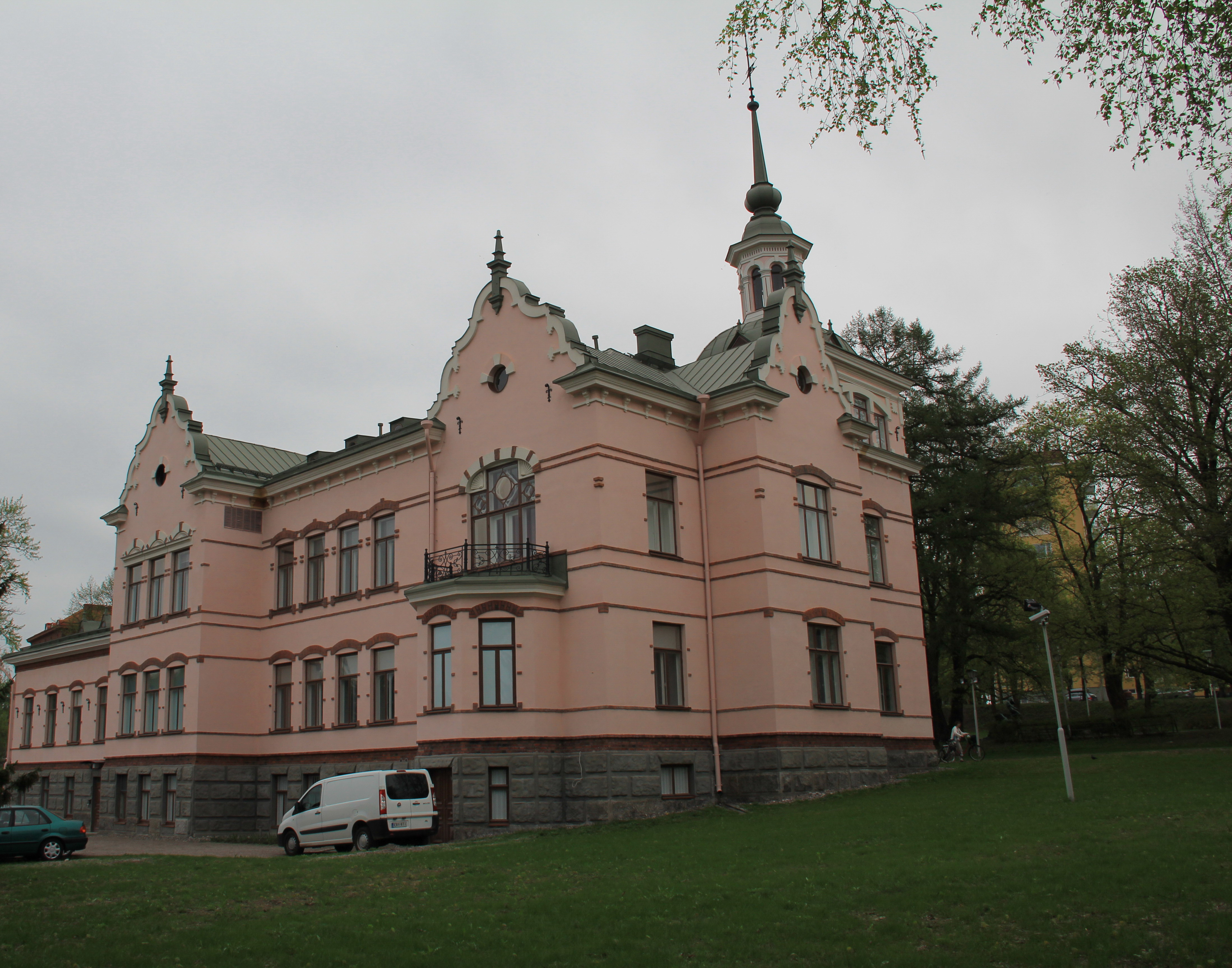 Fellman manor, Lahti, Finland. Completed 1898, architect Hjalmar Åberg (1870-1935).